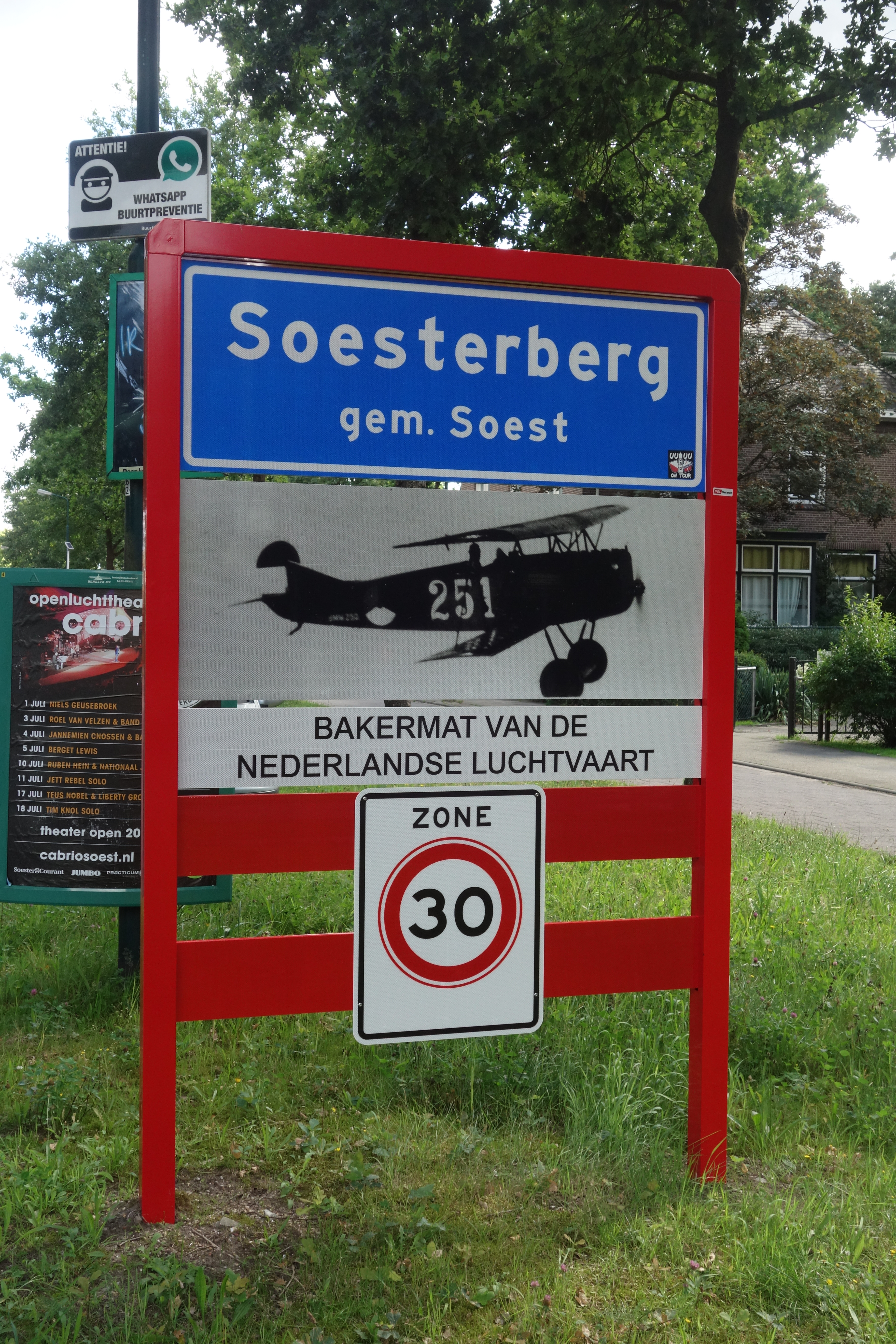 Soesterberg, "bakermat van de Nederlandse luchtvaart", 2020